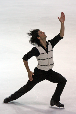 Stéphane Lambiel at the 2009 Nebelhorn Trophy.